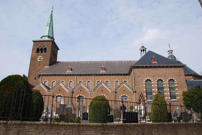 Kèrk in Hölsberg, church in Hulsberg